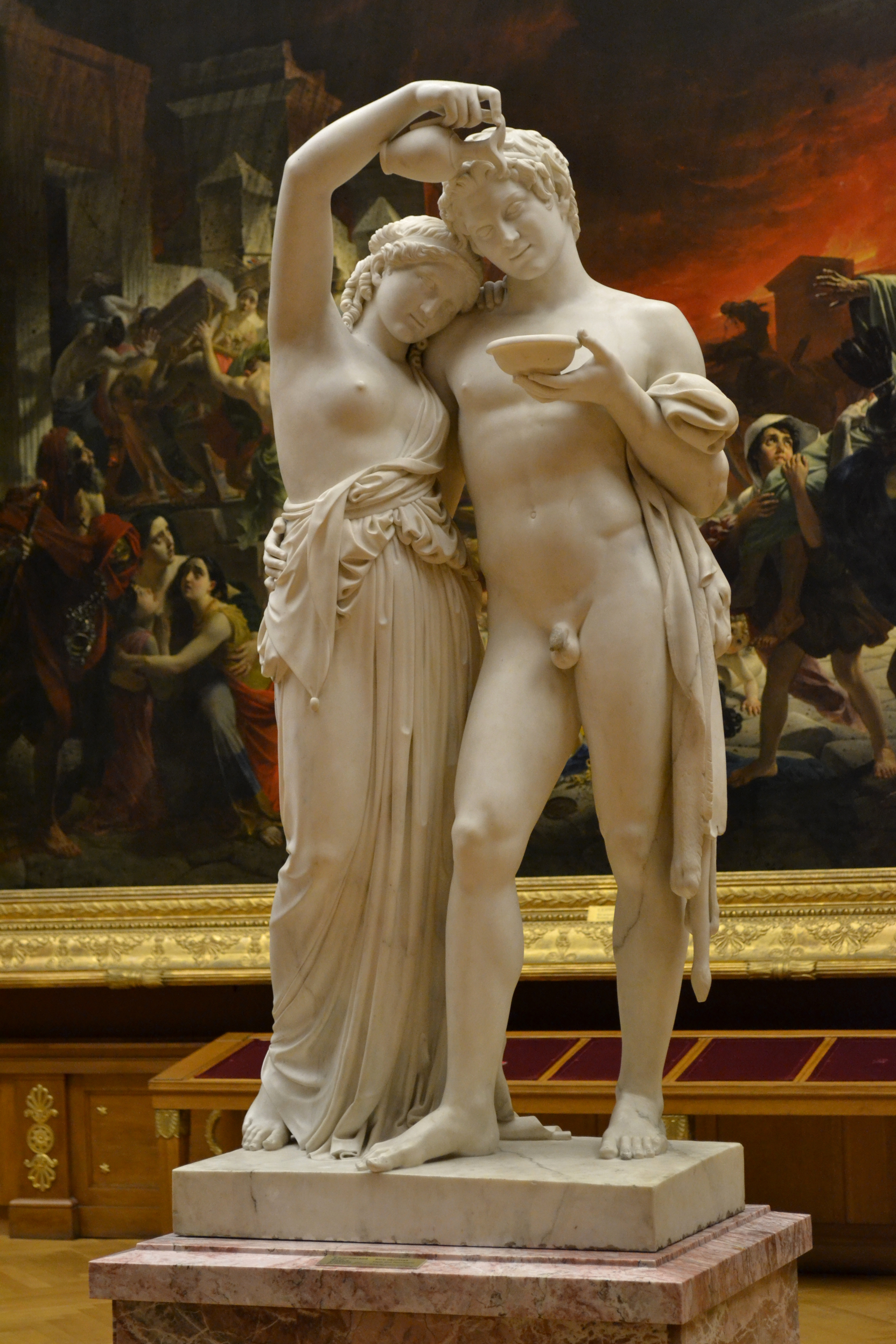 Boris Orlovsky Faun and Baechante After the plaster original of 1826-1827 Marble State Russian Museum, St. Petersburg, Russia